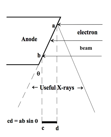 Illustration of the Line Focus Principle. See text for details.